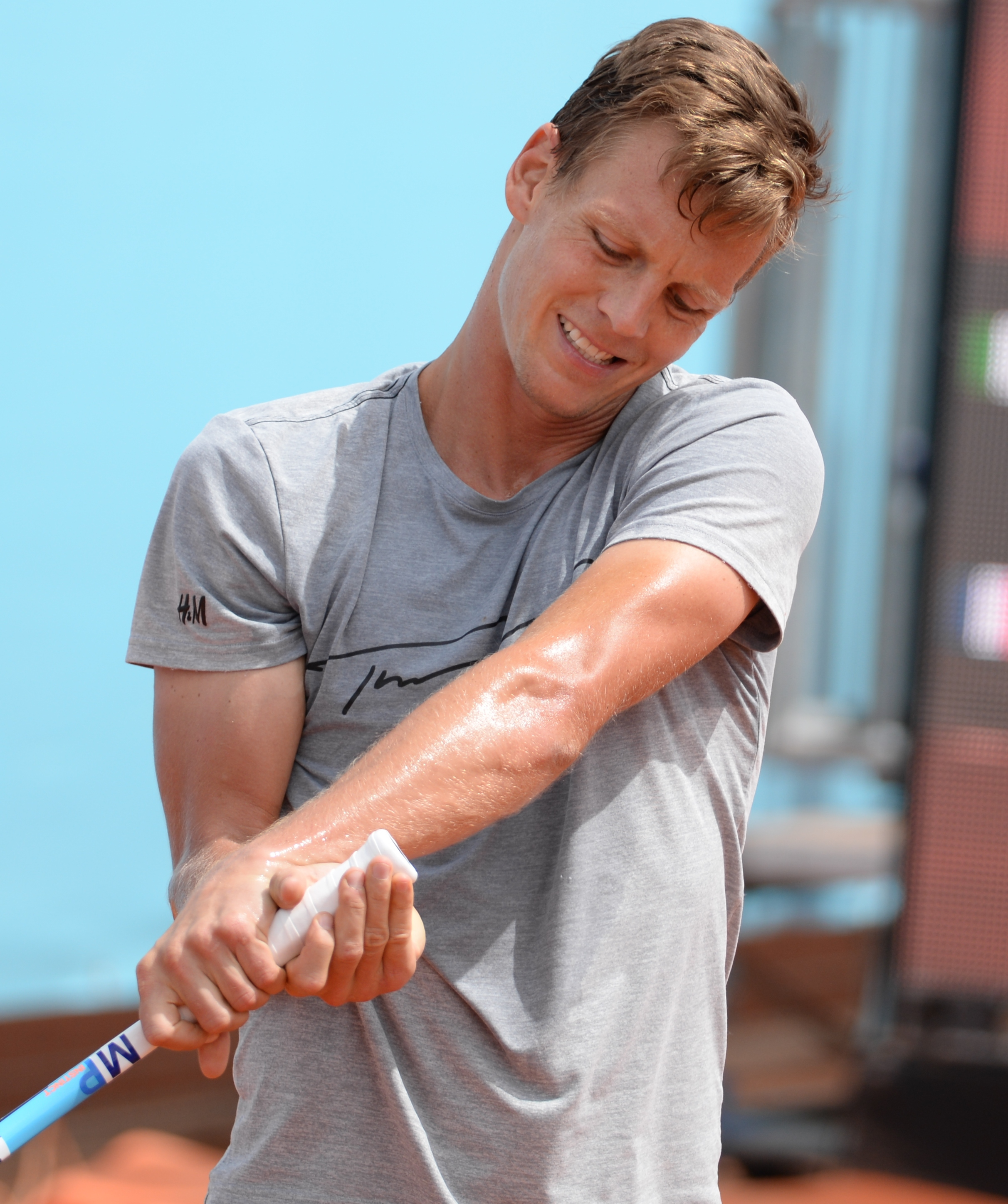 Tomas Berdych